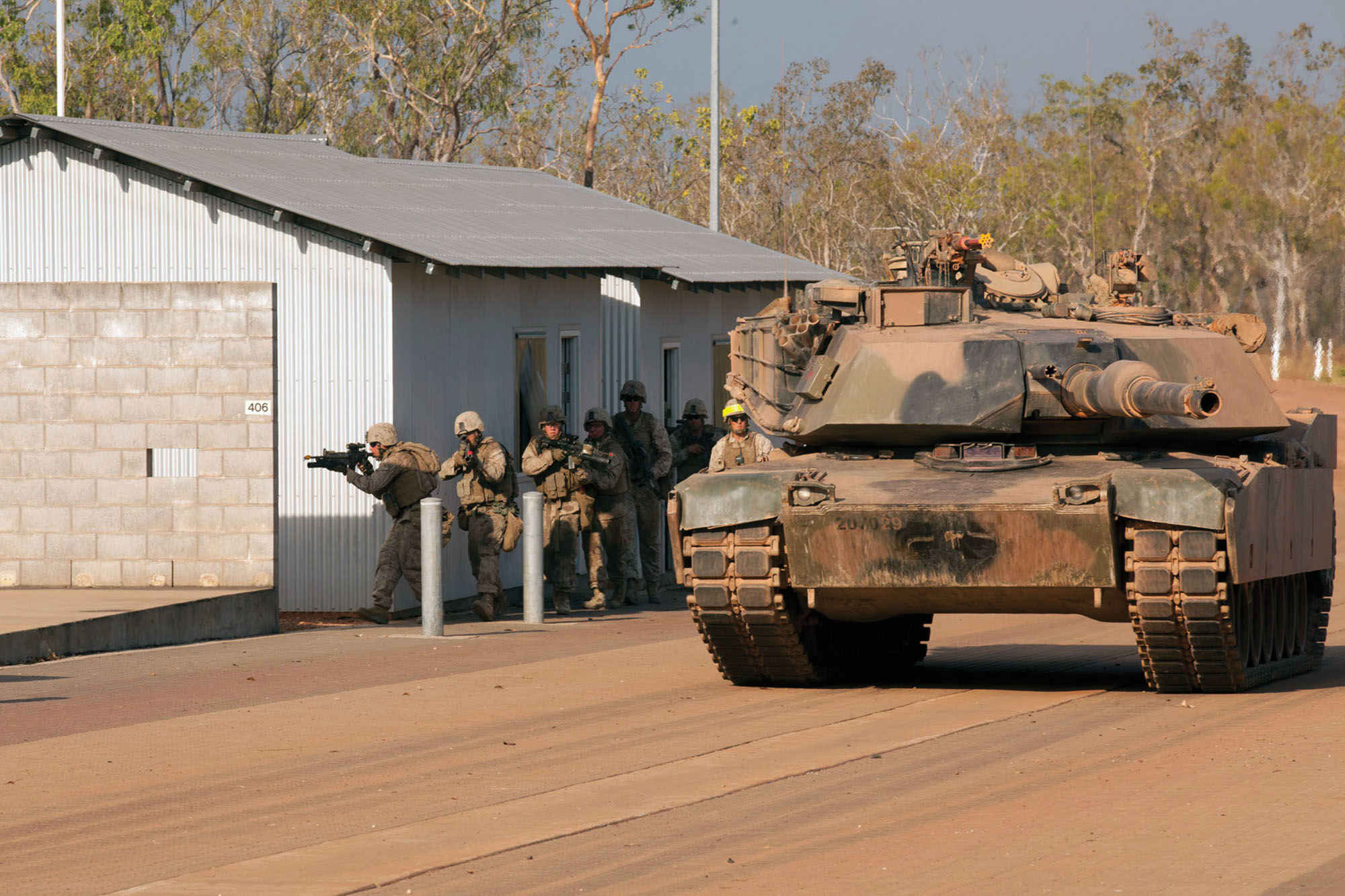 Marines advance alongside an Australian M1A1 tank during a bilateral assault at the urban operations training facility at Mount Bundy Training Area, Northern Territory, Australia, Sept. 5. For approximately three weeks, Marines conducted bilateral field training with various elements of the Australian Army. The tank is assigned to 2nd Troop, A Squadron, 1st Armored Regiment, Australian Army. The Marines are with Company F, 2nd Battalion, 3rd Marine Regiment, 3rd Marine Division, III Marine Expeditionary Force.